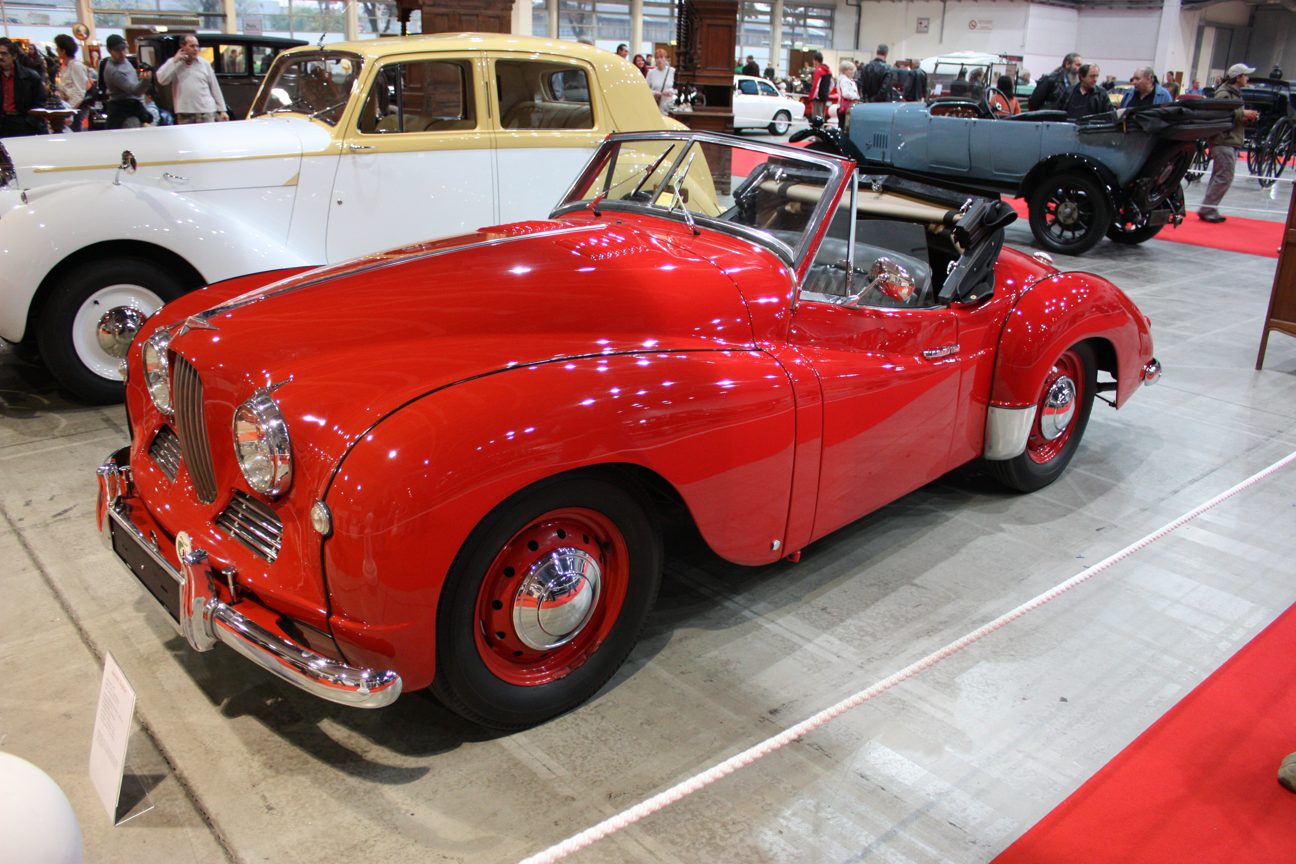 Oldtimer Show 2008.